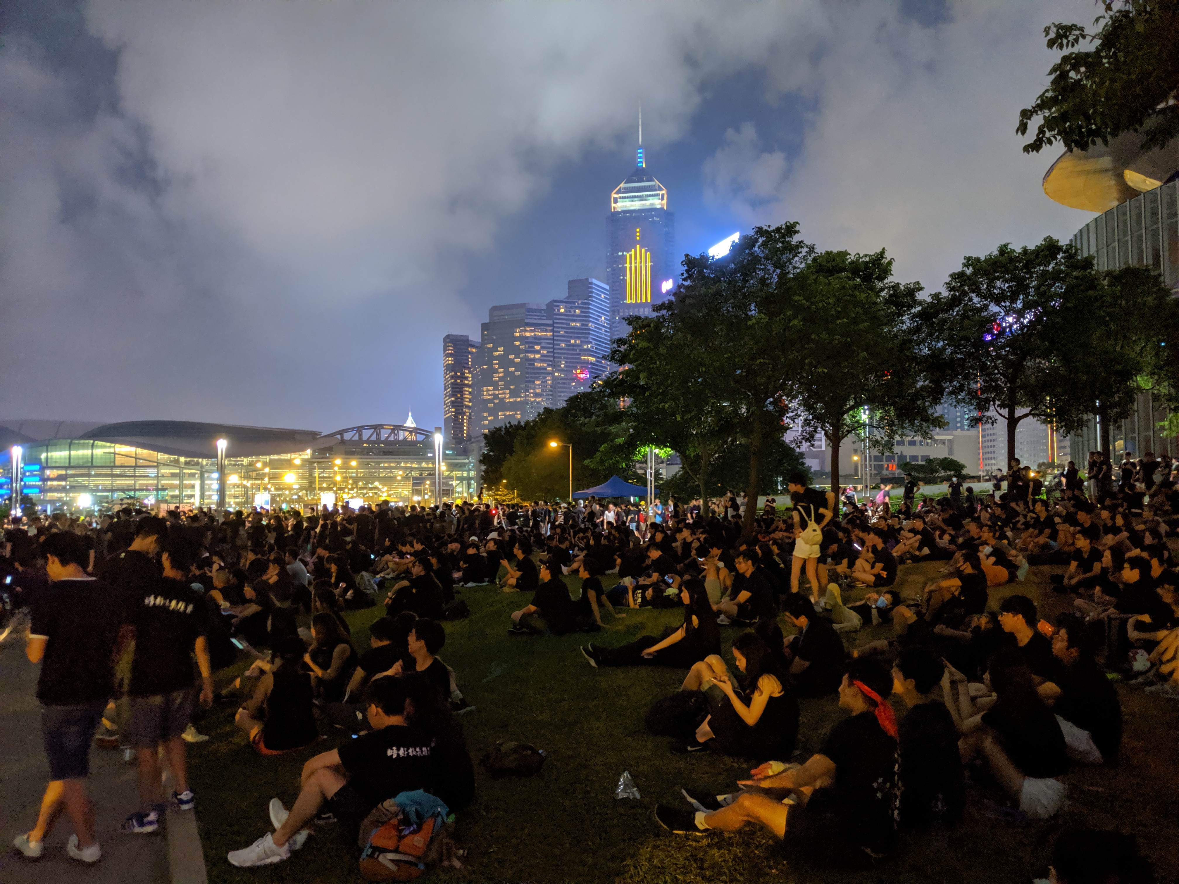 2019 Hong Kong anti-extradition law protest on 16 June, captured by Studio Incendo from Flickr.